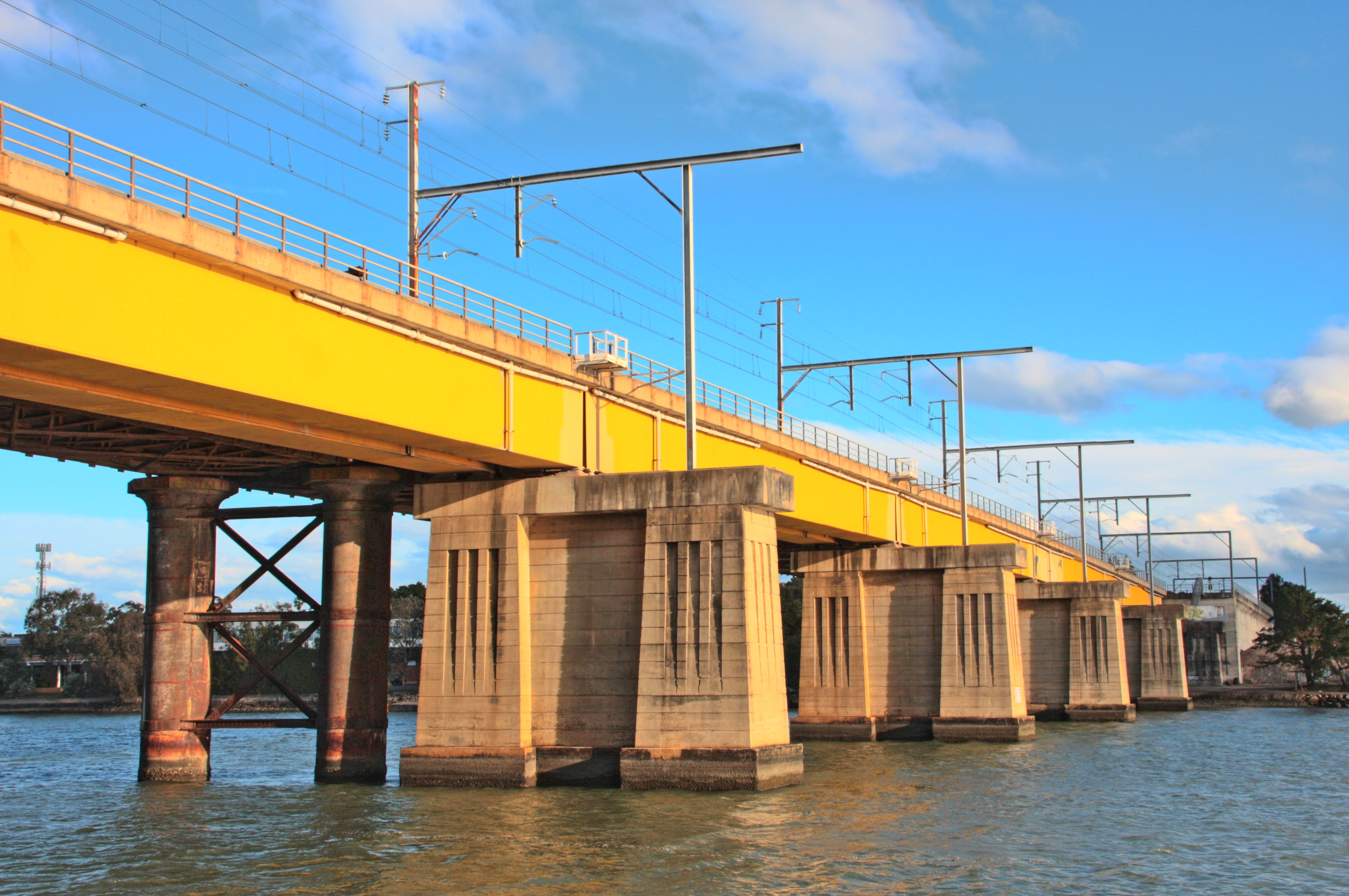 John Witton Railway Bridge Meadowbank, New South Wales